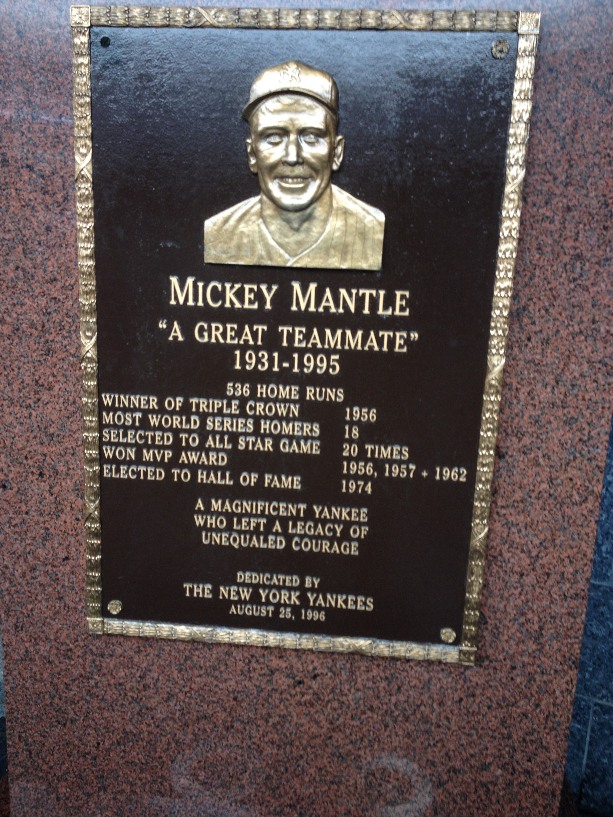 Mickey Mantle's monument in Yankee Stadium's Monument Park, Bronx, NY